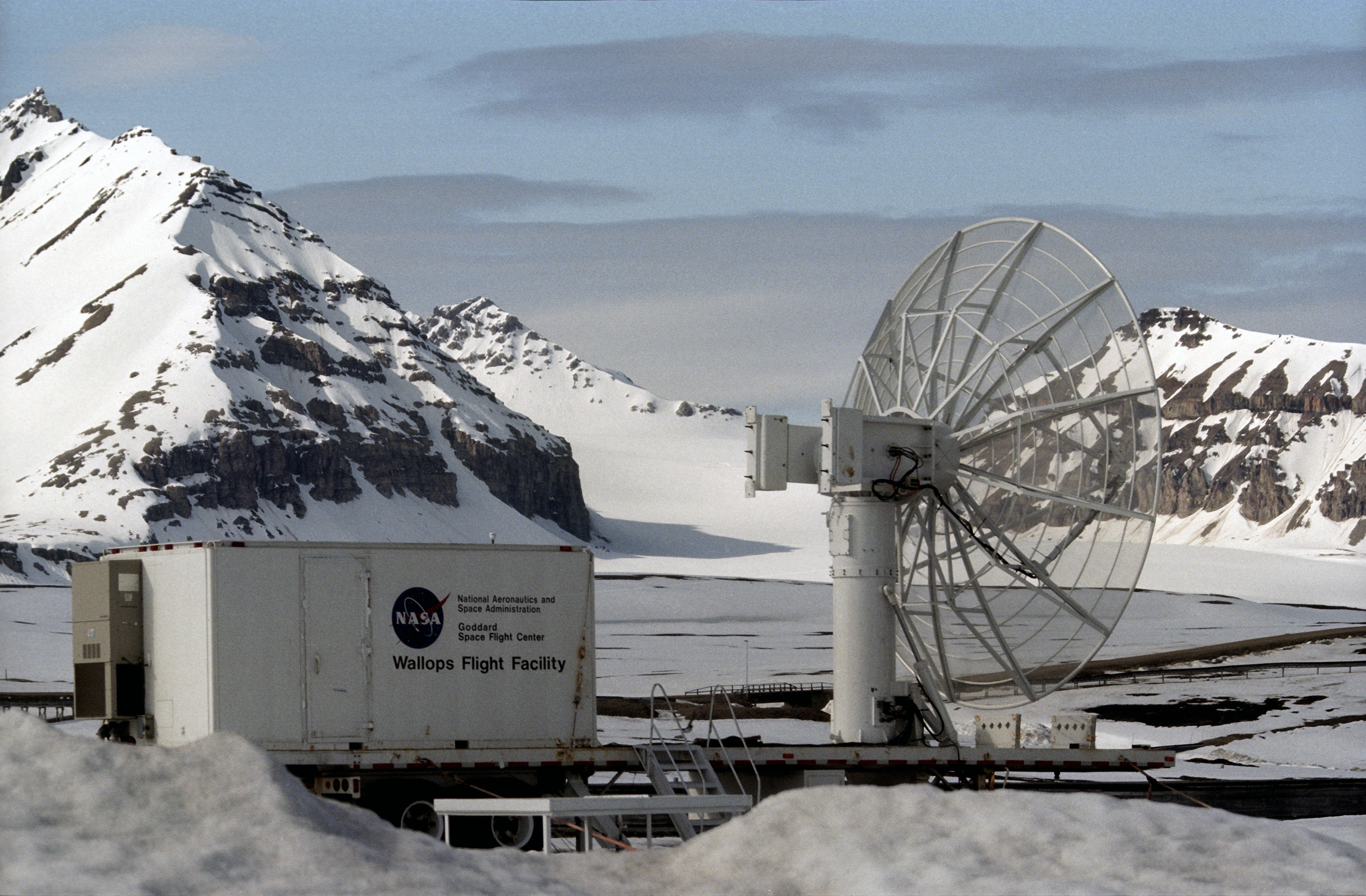 Svalbard, Ny-Ålesund, the research station Wallops Flight Facility